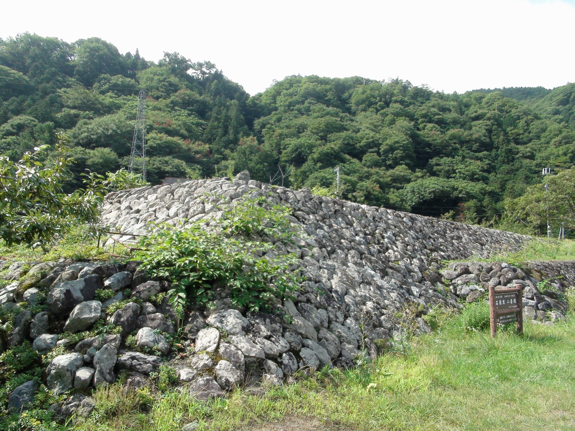 Midai-gawa Kyuteibo Ishitusumidashi National historic sites of Japan